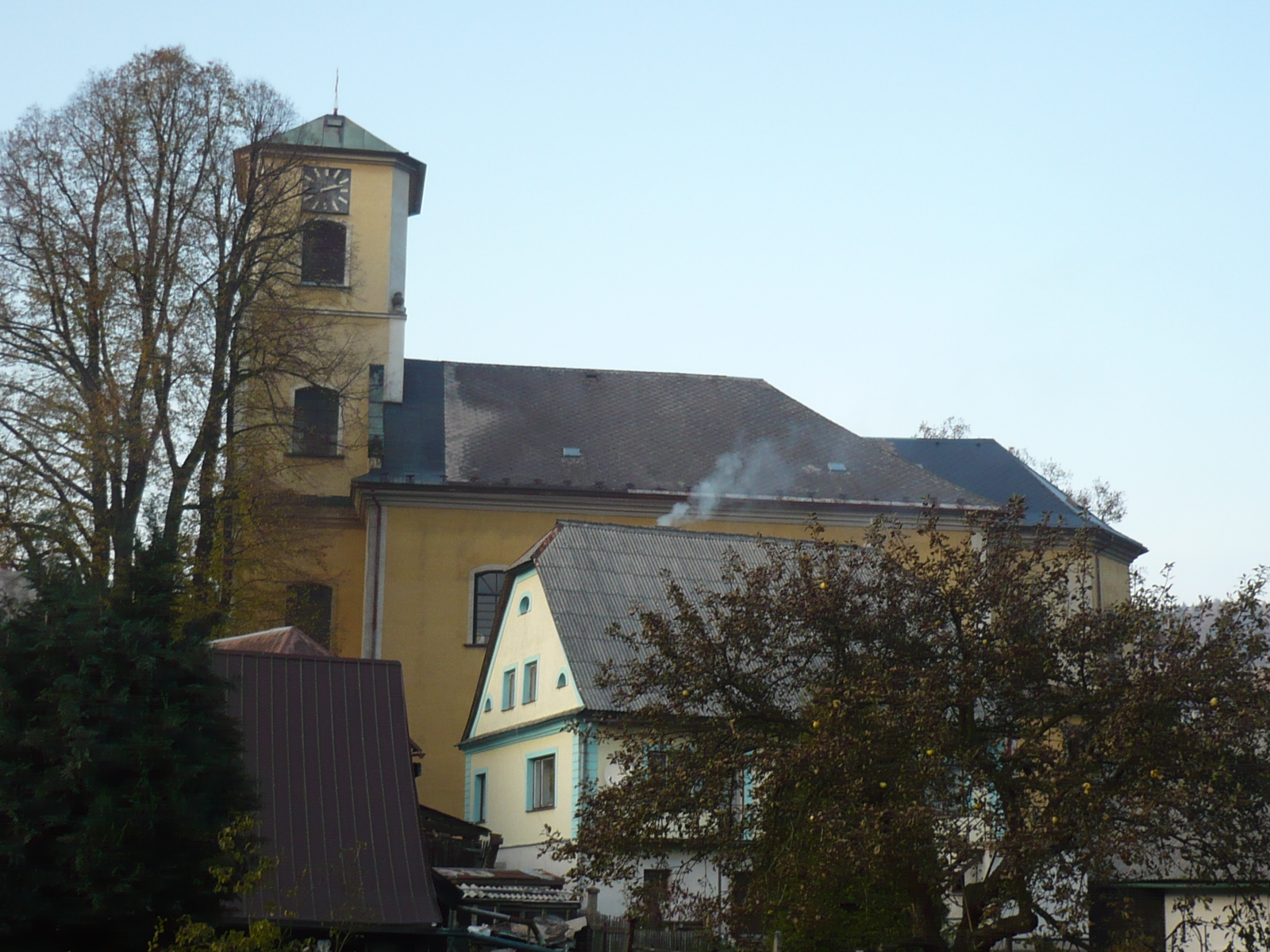 Mladkov - Church, Orlicke mountains, The Czech Republic